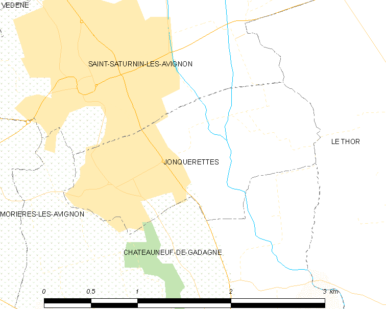 Map of French municipality Jonquerettes